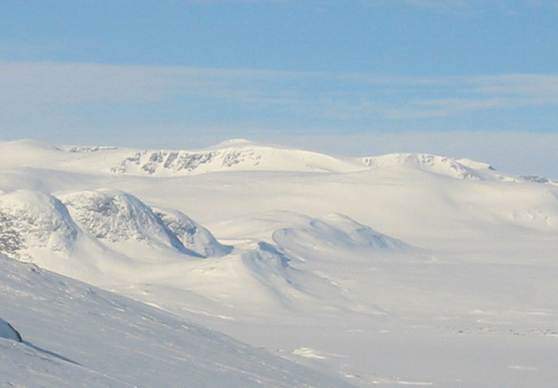 The Rasletind massif from southeast winter 2004